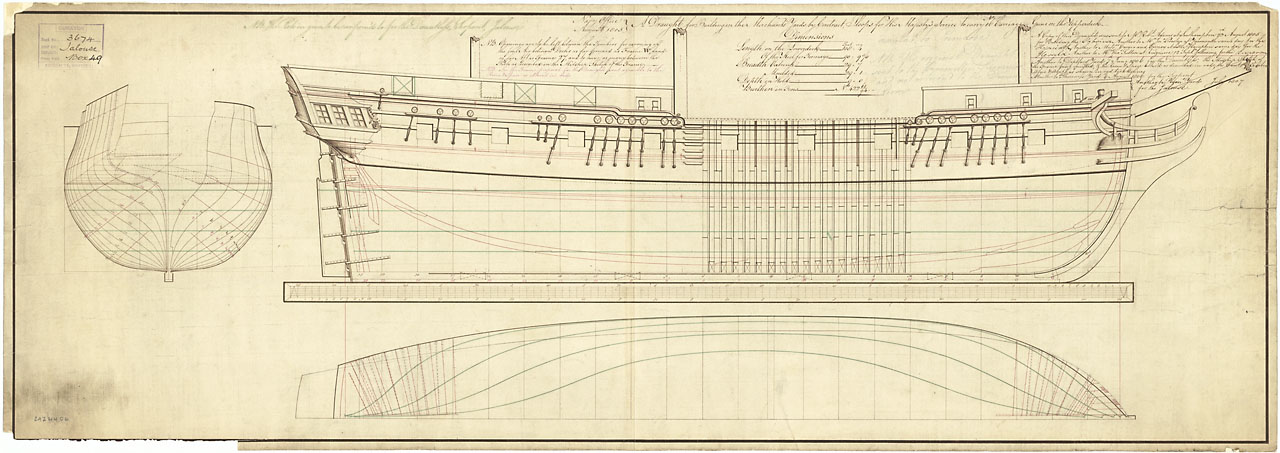 Scale: 1:48. Plan showing the body plan, sheer lines with inboard detail and midship framing, and longitudinal half-breadth for Jalouse (1809)